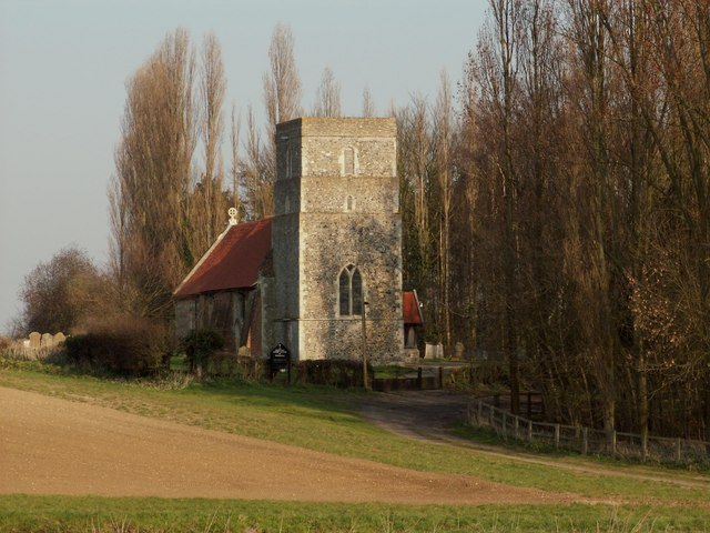 Church of St Catherine in Ringshall, Suffolk, England. A Grade I listed medieval church.